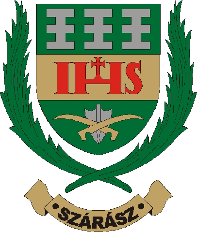 Coat of arms of Szárász, Hungary